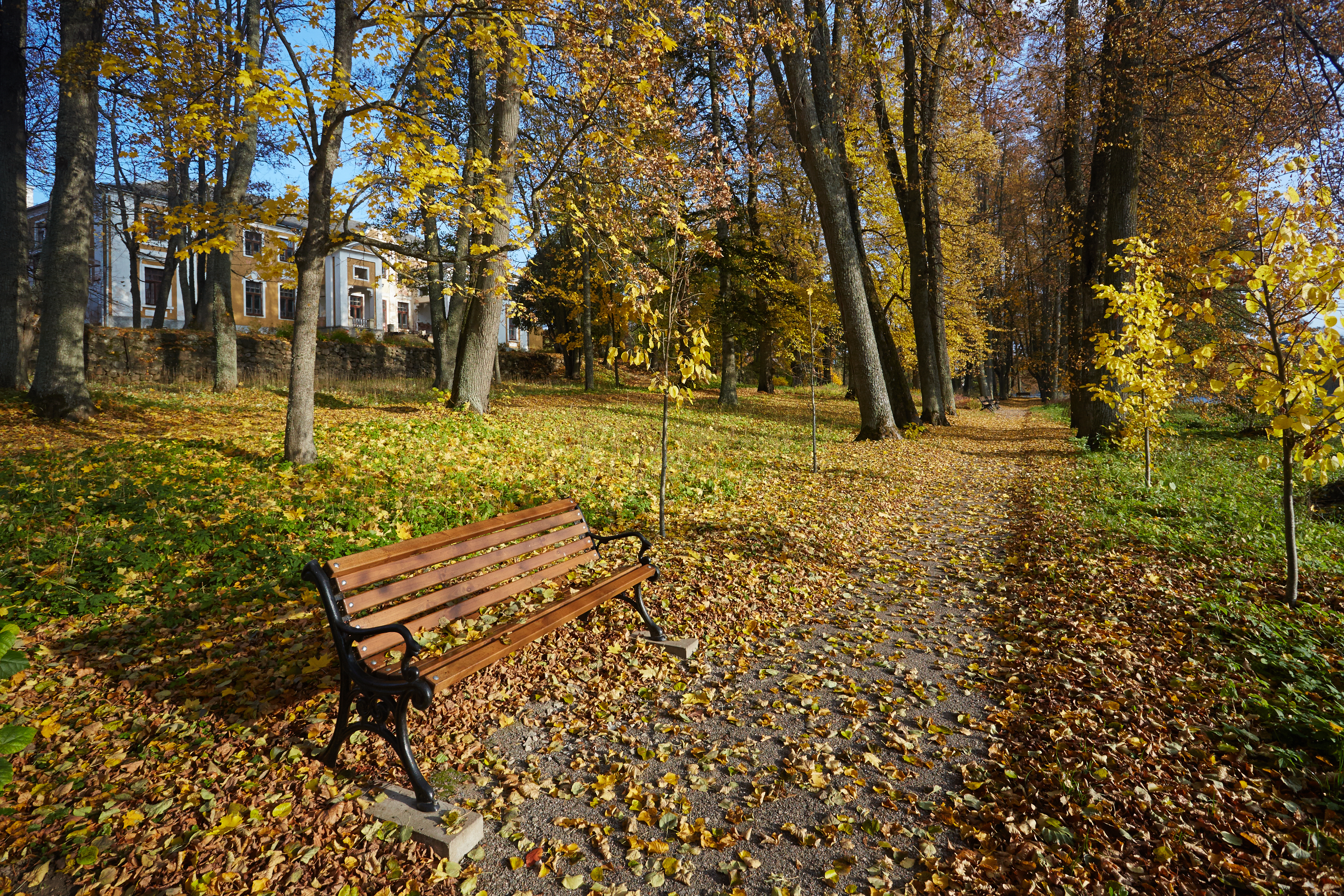 Väimela manor park